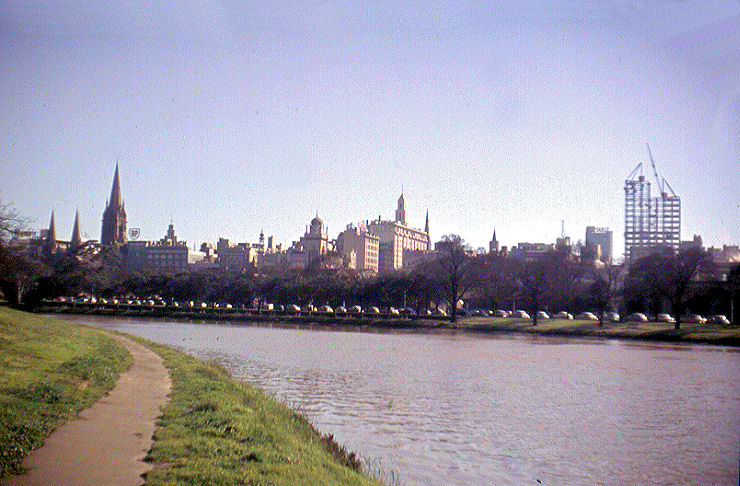 Melbourne's skyline in 1959, along the Yarra River.